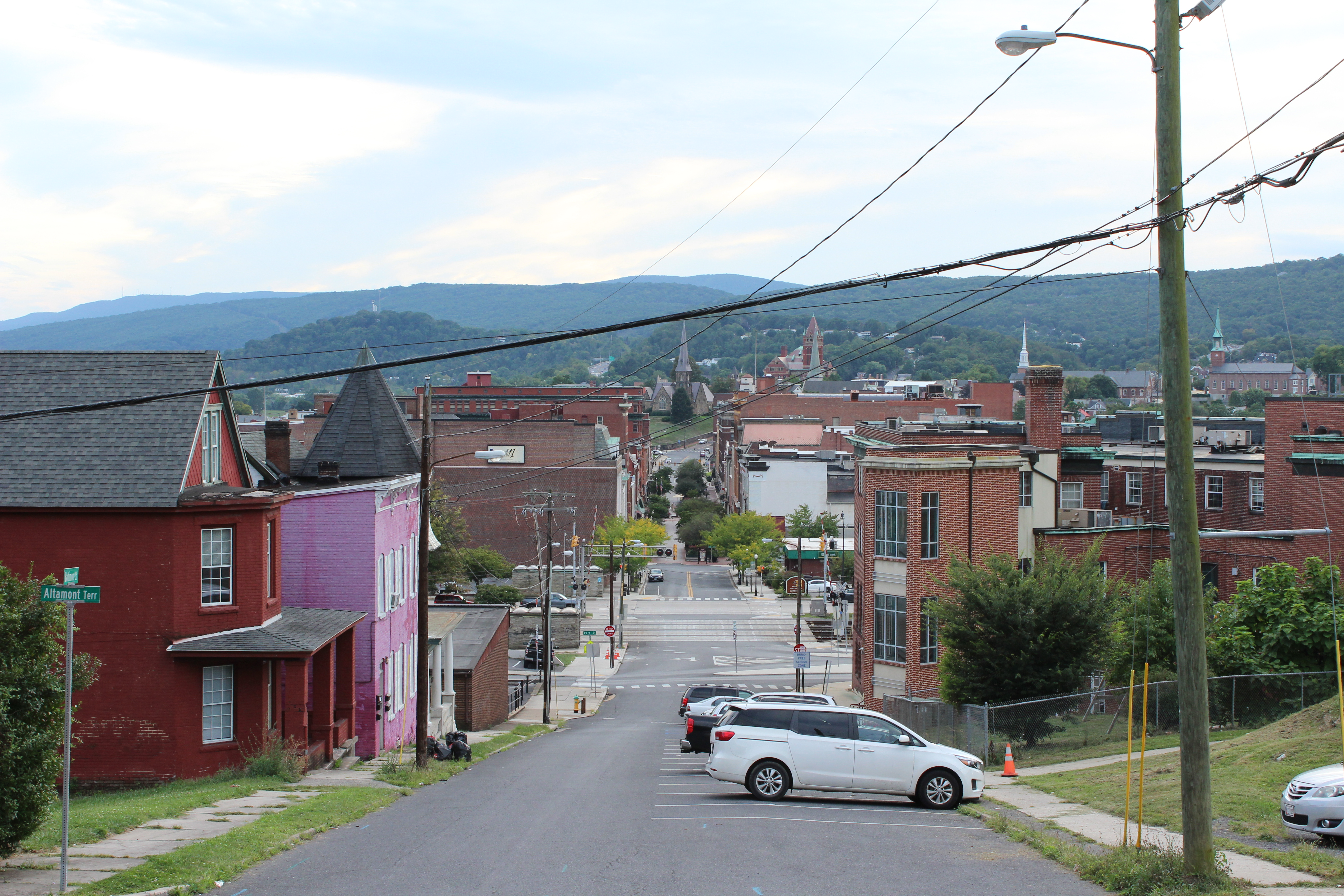 Photo of Cumberland, Maryland, USA taken in August 2019 from the top of the hill on Baltimore Street.